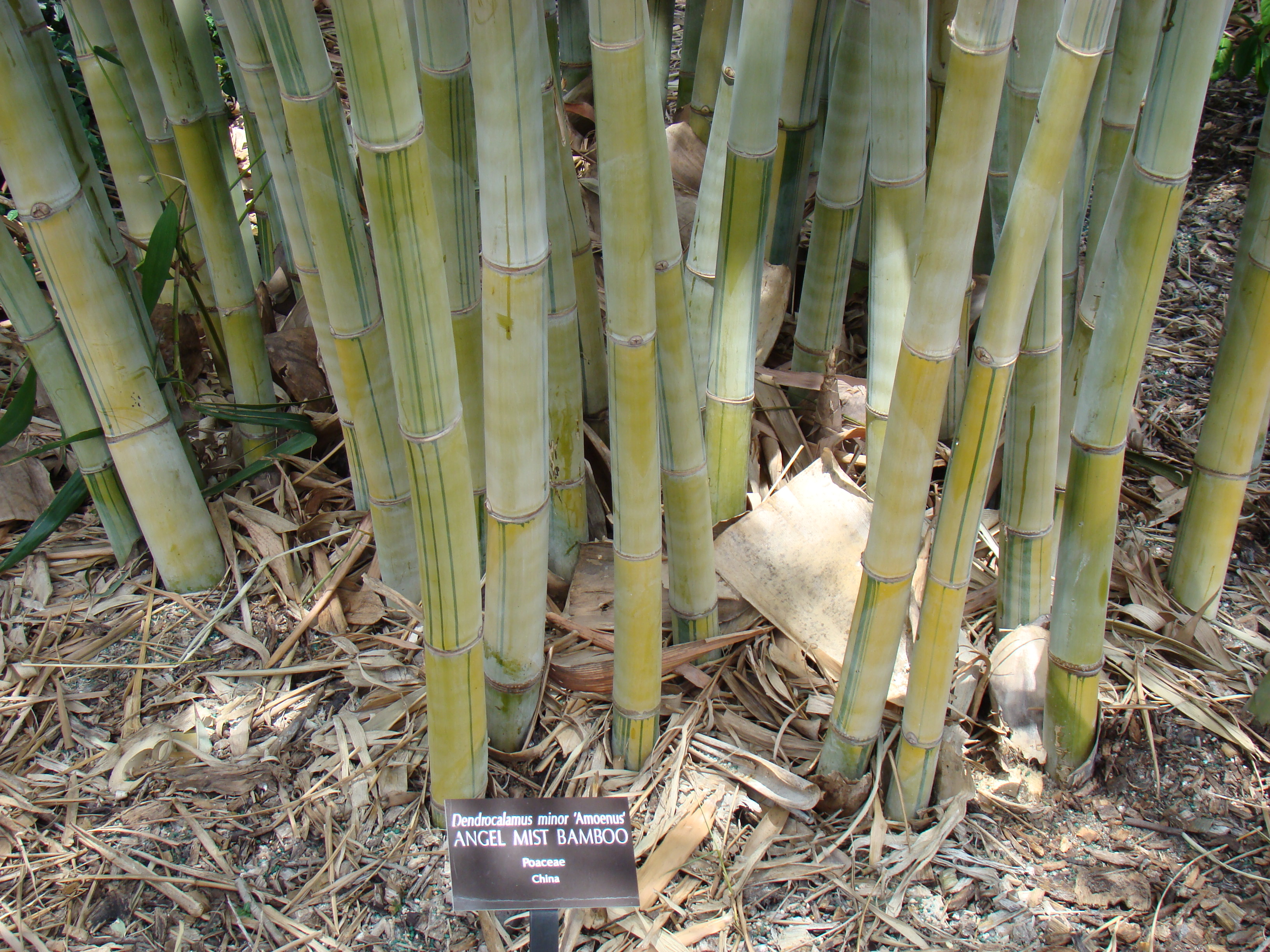 Angel Mist Bamboo (Dendrocalamus minor 'Amoenus' / Poaceae) in Mounts Botanical Garden, West Palm Beach, Florida.